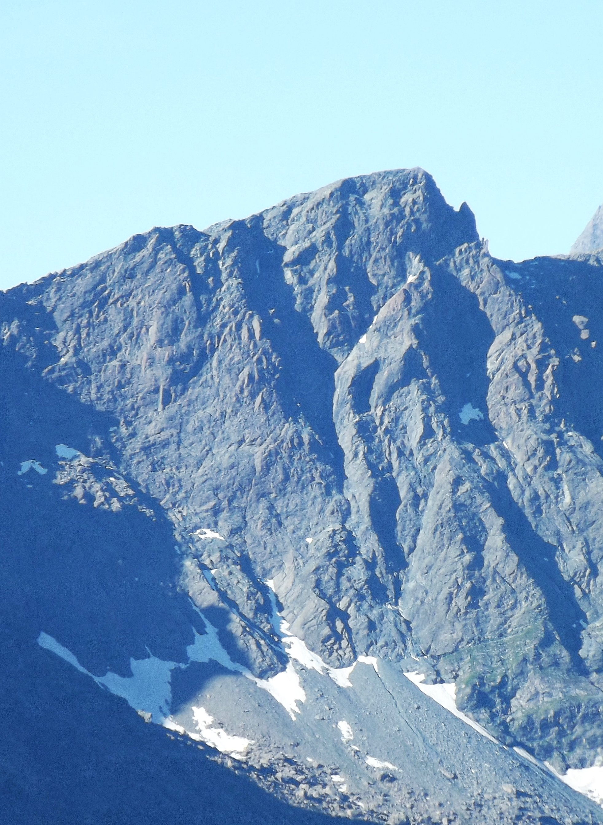 Northern slopes of the punta Rossa di Sea (Graian Alps, TO, Italy)